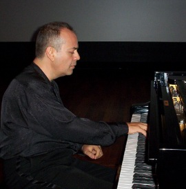 Pianist, composer, conductor musicologist and educator Mehmet Okonsar at the piano